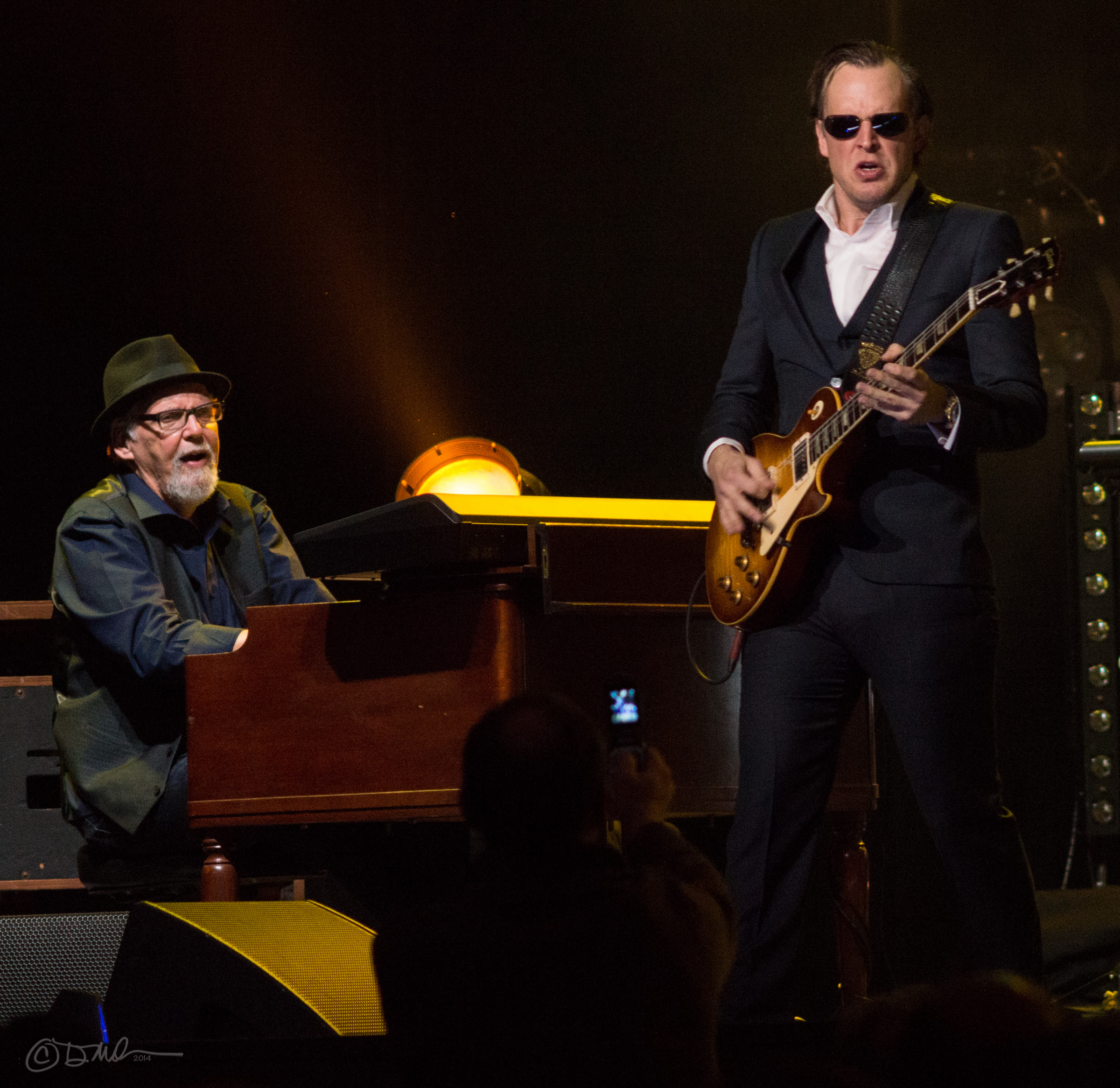 Reese Wynans with Joe Bonamassa Radio City Music Hall Jan 2015